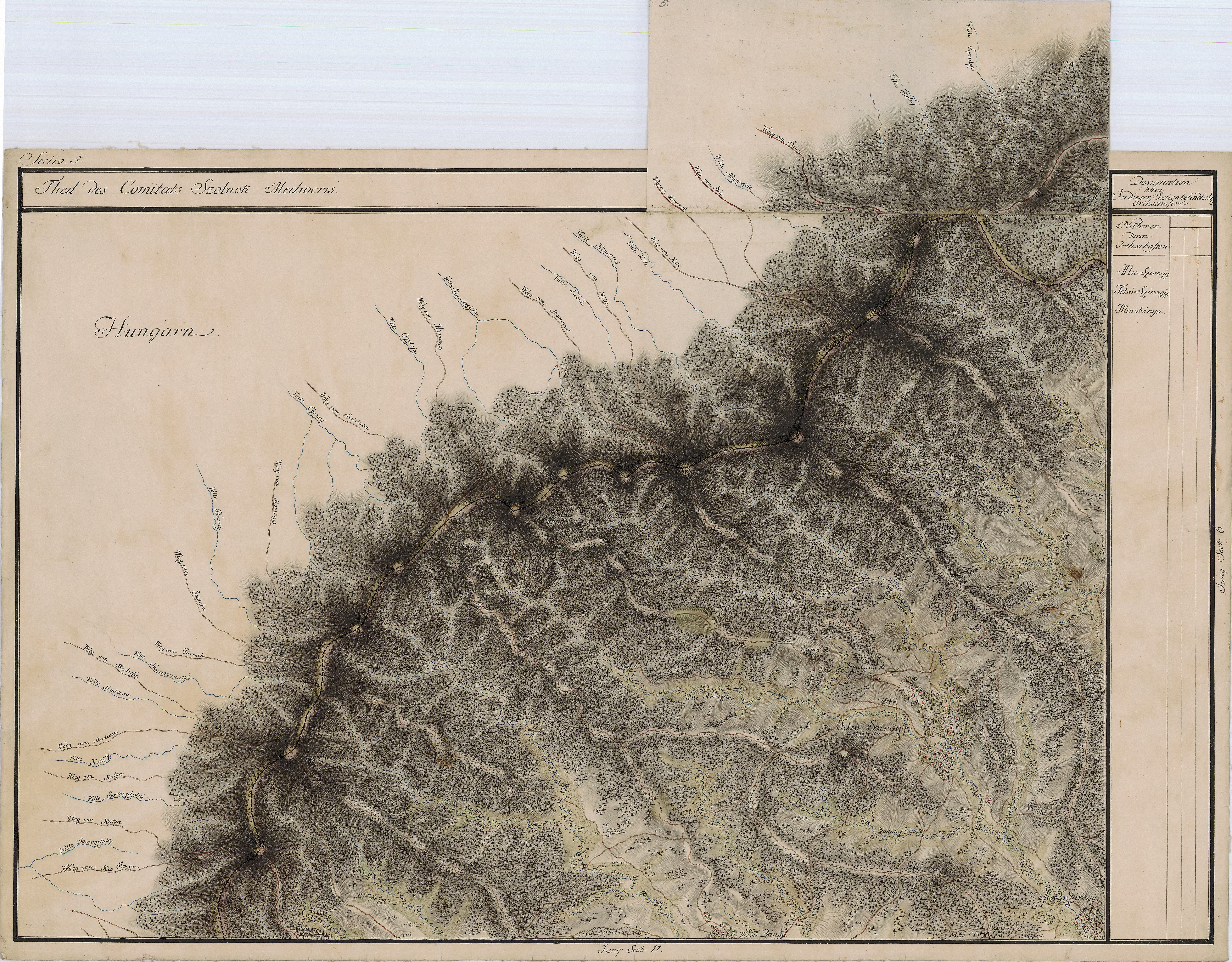 Grand Duchy of Transylvania, 1769-1773. Josephinische Landaufnahme pg.005